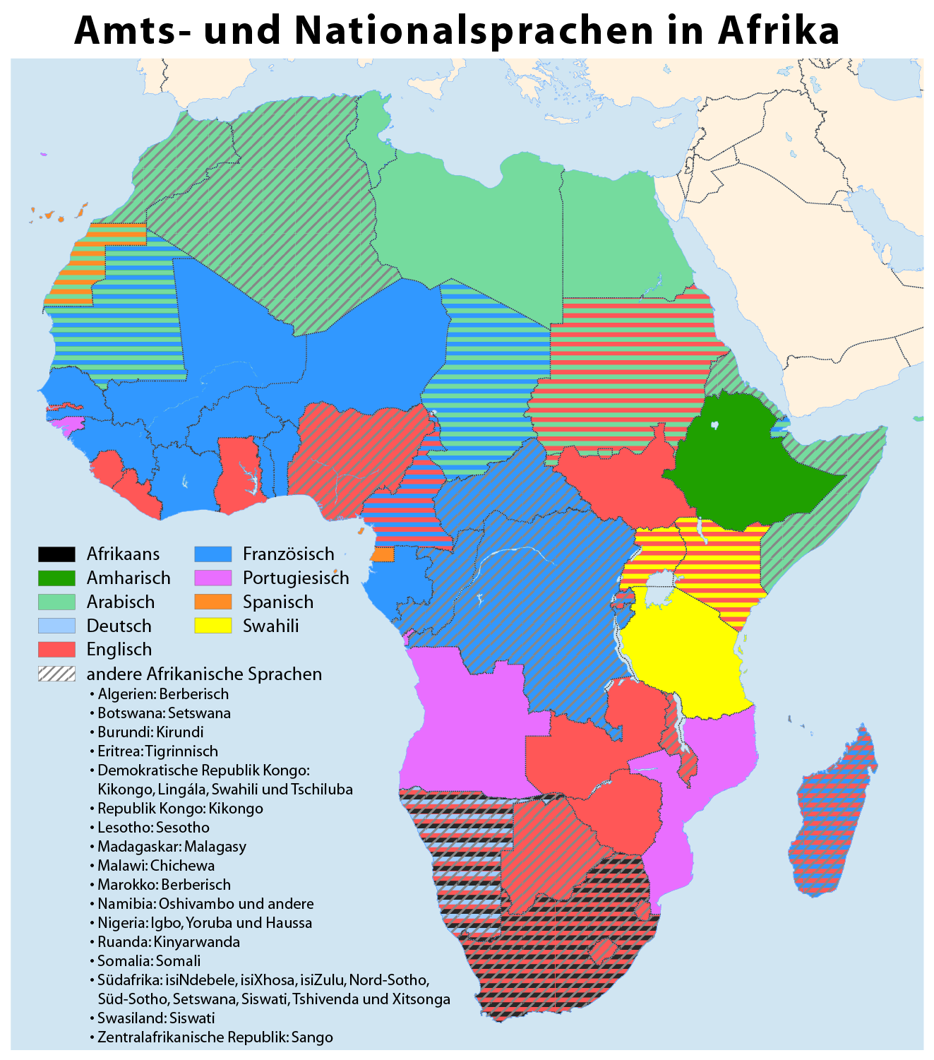 Map of the official and national languages of Africa